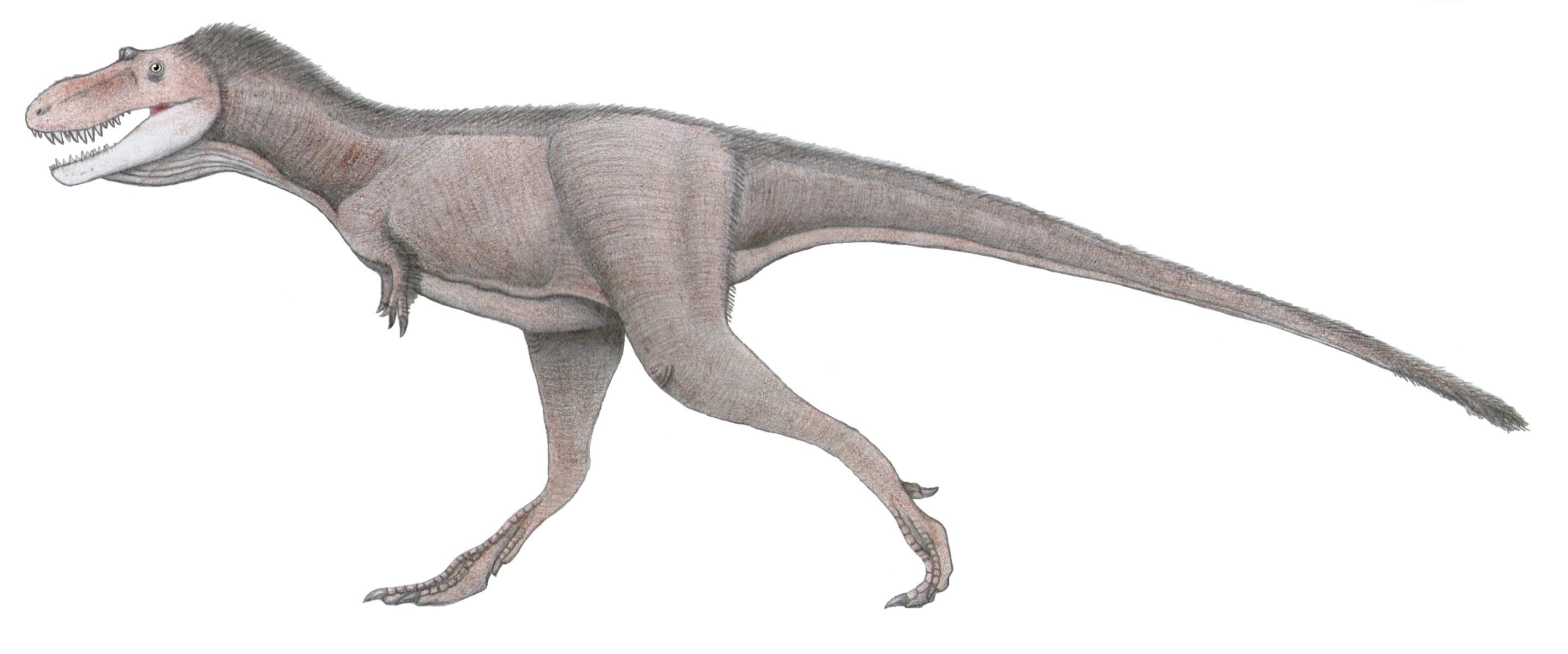 Recreation the subadult specimen (TMP 91.36.500) of Gorgosaurus libratus.